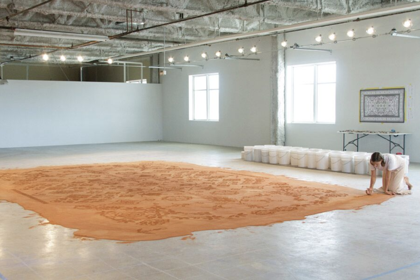 Artist working on a rug made of sand.